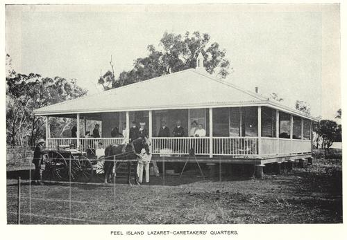 Caretakers cottage on the Peel Island Lazaret taken 1907